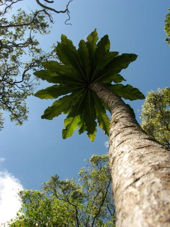 Cyanea superba "Cyanea superba, is one of 88 endangered species the U.S. Army Garrison Hawaii’s Natural Resource Program is responsible for managing. This species went extinct in the wild in the early 2000’s, however, due to seed collection efforts, 270 individual plants have been reintroduced into their natural habitat. In 2009, staff found seedlings that had been produced naturally by these outplanted individuals, validating the management techniques used by the program"